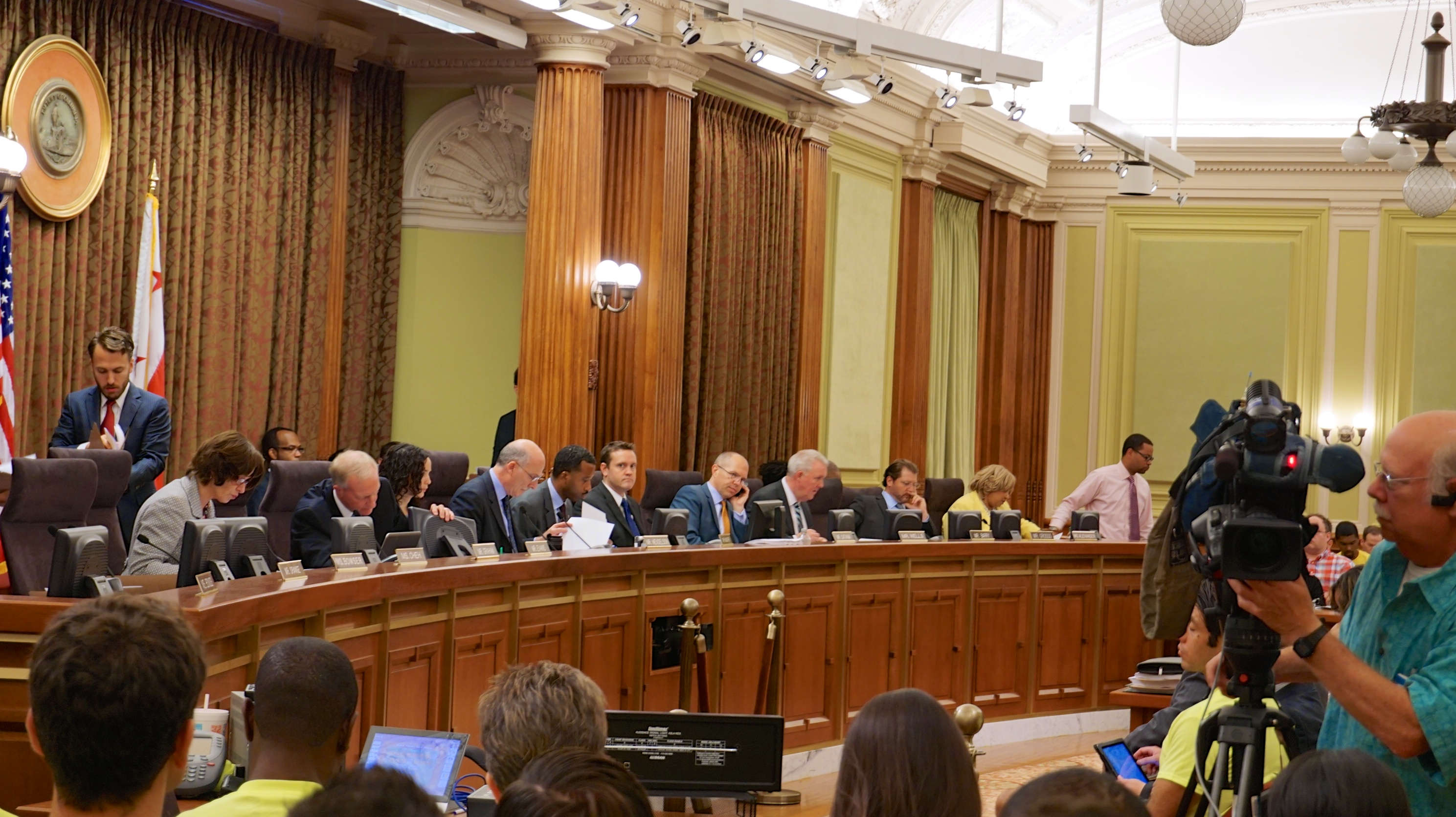 Published in Getting to Know the DC Council: The Eagle